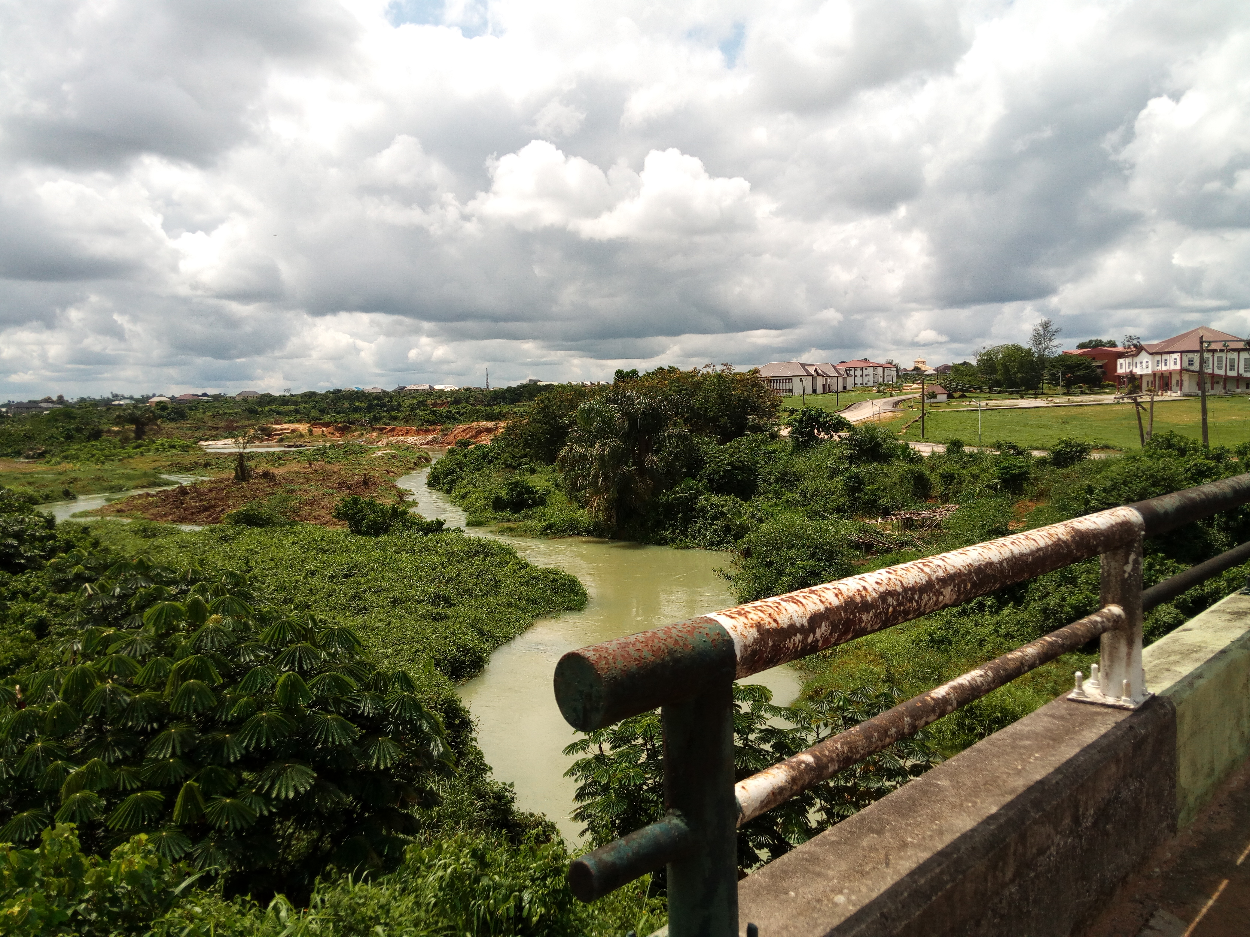 River otamiri a beautiful sight to behold.a symbol of culture hope and heritage to the people of imo state This is an image with the theme "Play" from: Nigeria